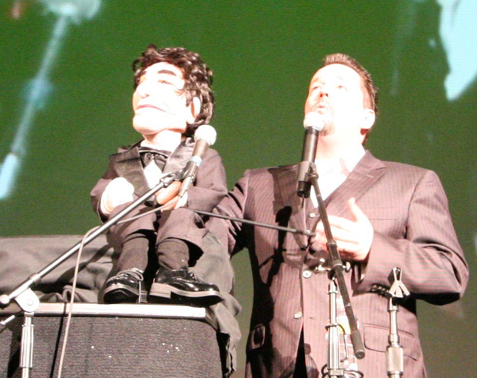 Terry Fator appears at the "Poncan Theater" in Ponca City, Oklahoma on May 6, 2008.